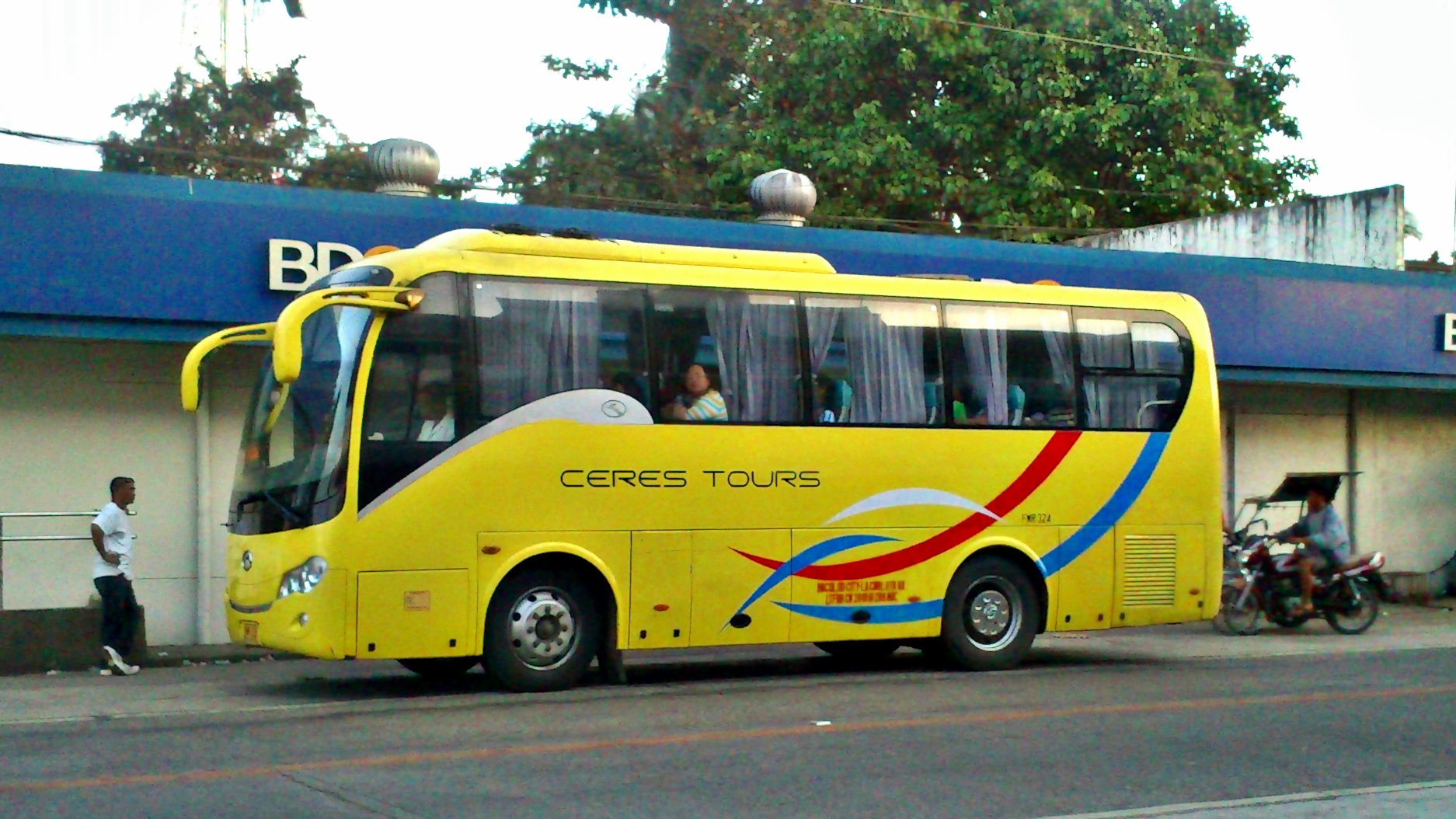 Ceres Tours 5046